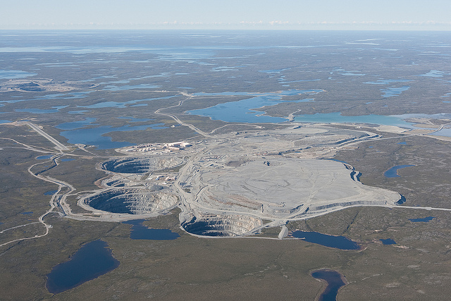 Ekati Diamond Mine, note 3 open pits in foreground. Airport far left, with another pit just above it in the distance.